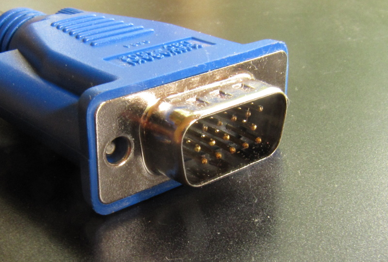 VGA-Conector